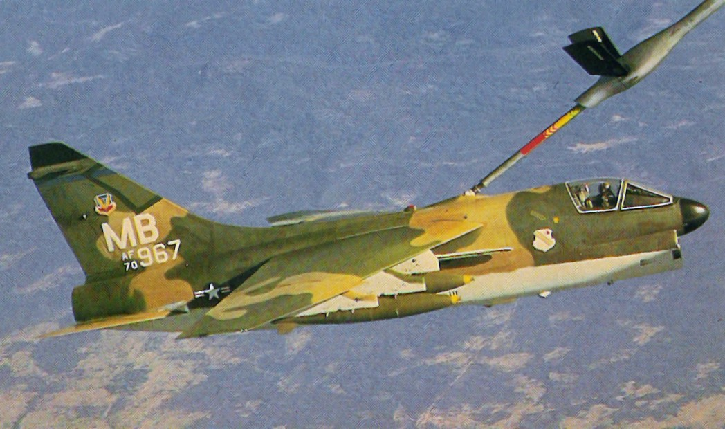 A U.S. Air Force LTV A-7D Corsair II (s/n 70-0967) of the 355th Tactical Fighter Squadron, 354th Tactical Fighter Wing, deployed to Korat RTAFB, Thailand, refueling from a Boeing KC-135A Stratotanker during a mission over Vietnam in 1972. 1972: Delivered to 354th Tactical Fighter Wing/355th TFS, Myrtle Beach AFB, SC (c/n D-113) Transferred to 112th Tactical Fighter Squadron, OH Air National Guard, 1977 Transferred to 162th Tactical Fighter Squadron, OH Air National Guard, 1979 Transferred to to AMARC, 1992 Transferred to Grayling Range, MI. as gunnery target